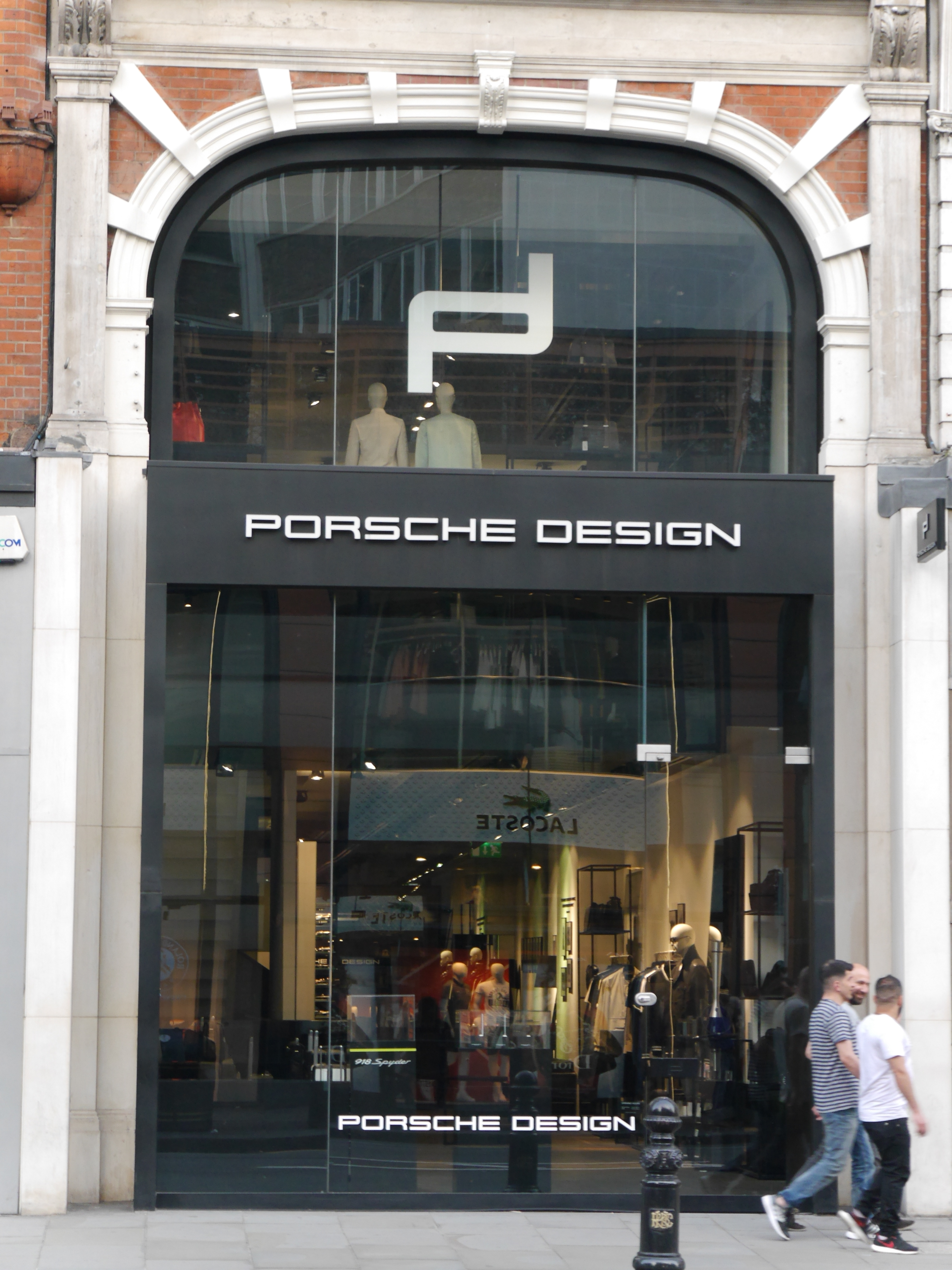 Brompton Road, London, June 2016